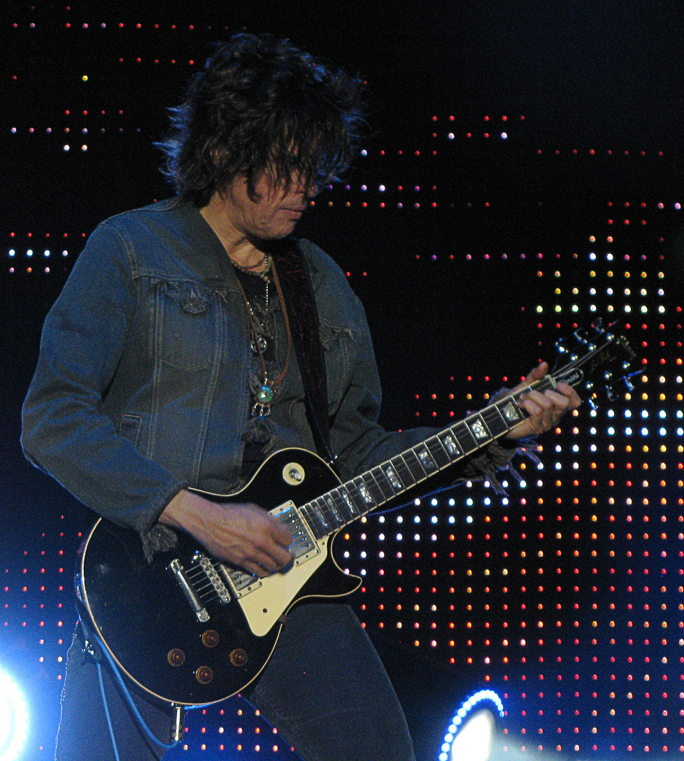 Dean DeLeo playing in Ottawa, ON, 2009